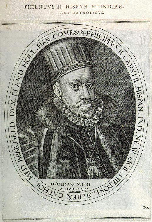 Portrait of Philip II of Spain